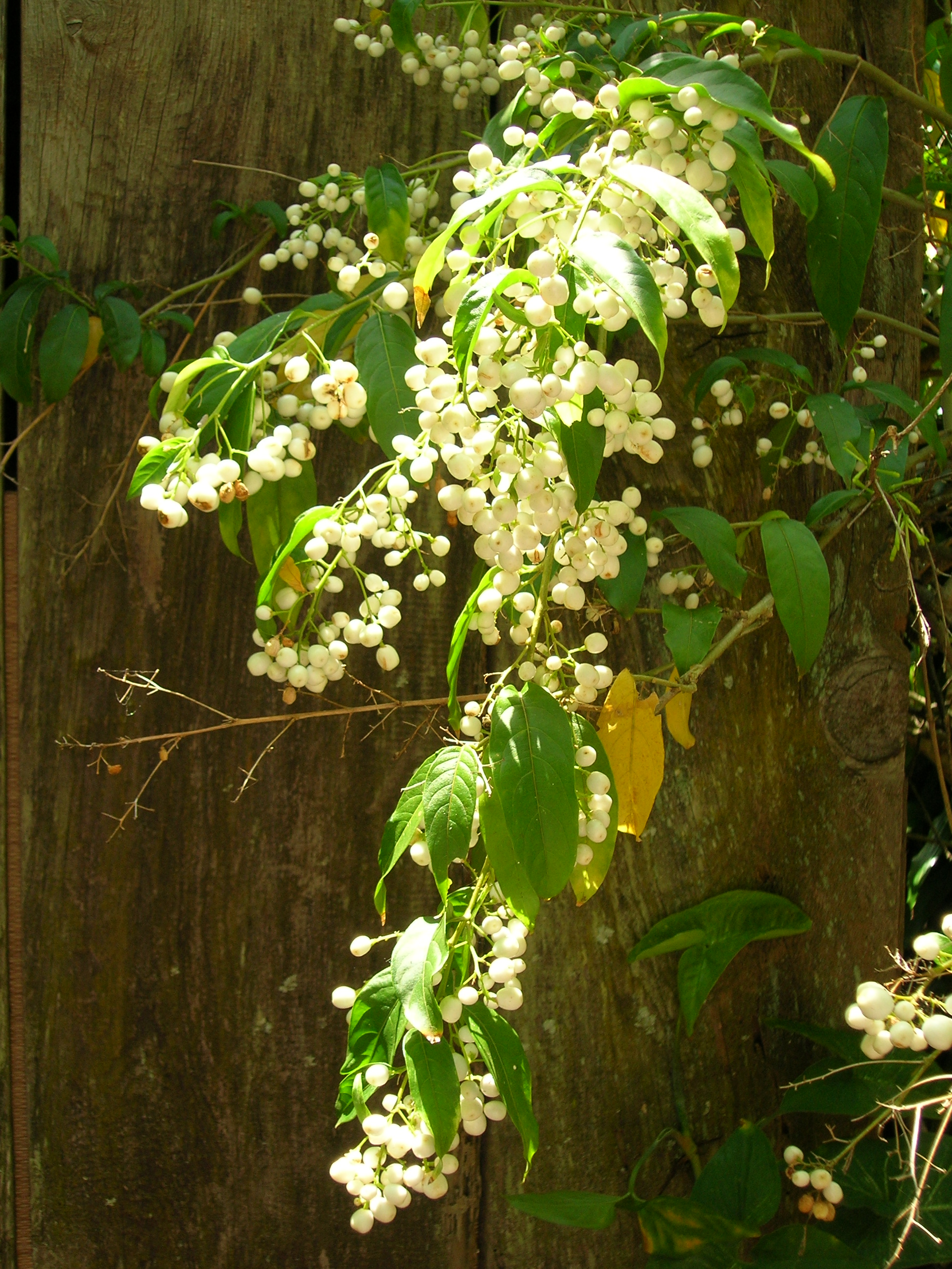 Cestrum nocturnum (fruit). Location: Maui, Makawao